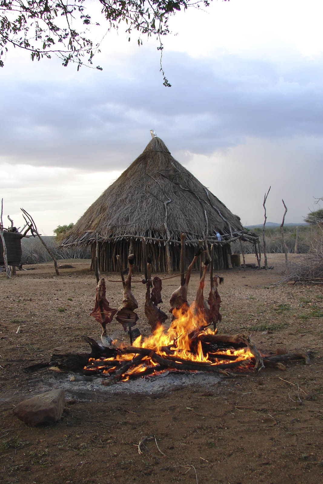 The welcome meal : Hamer village (Ethiopia)